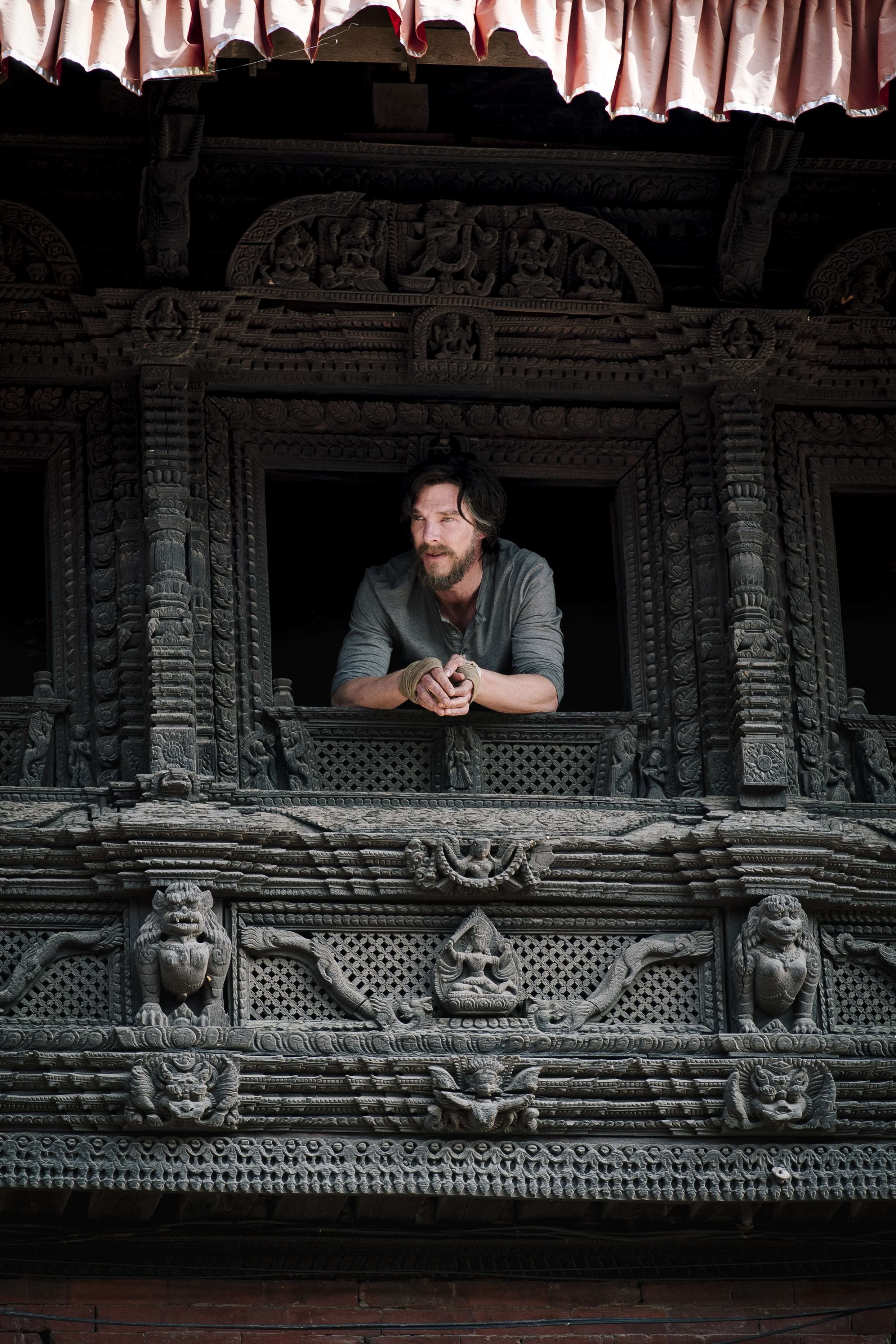 Benedict Cumberbatch in Kathmandu on the set of Doctor Strange.